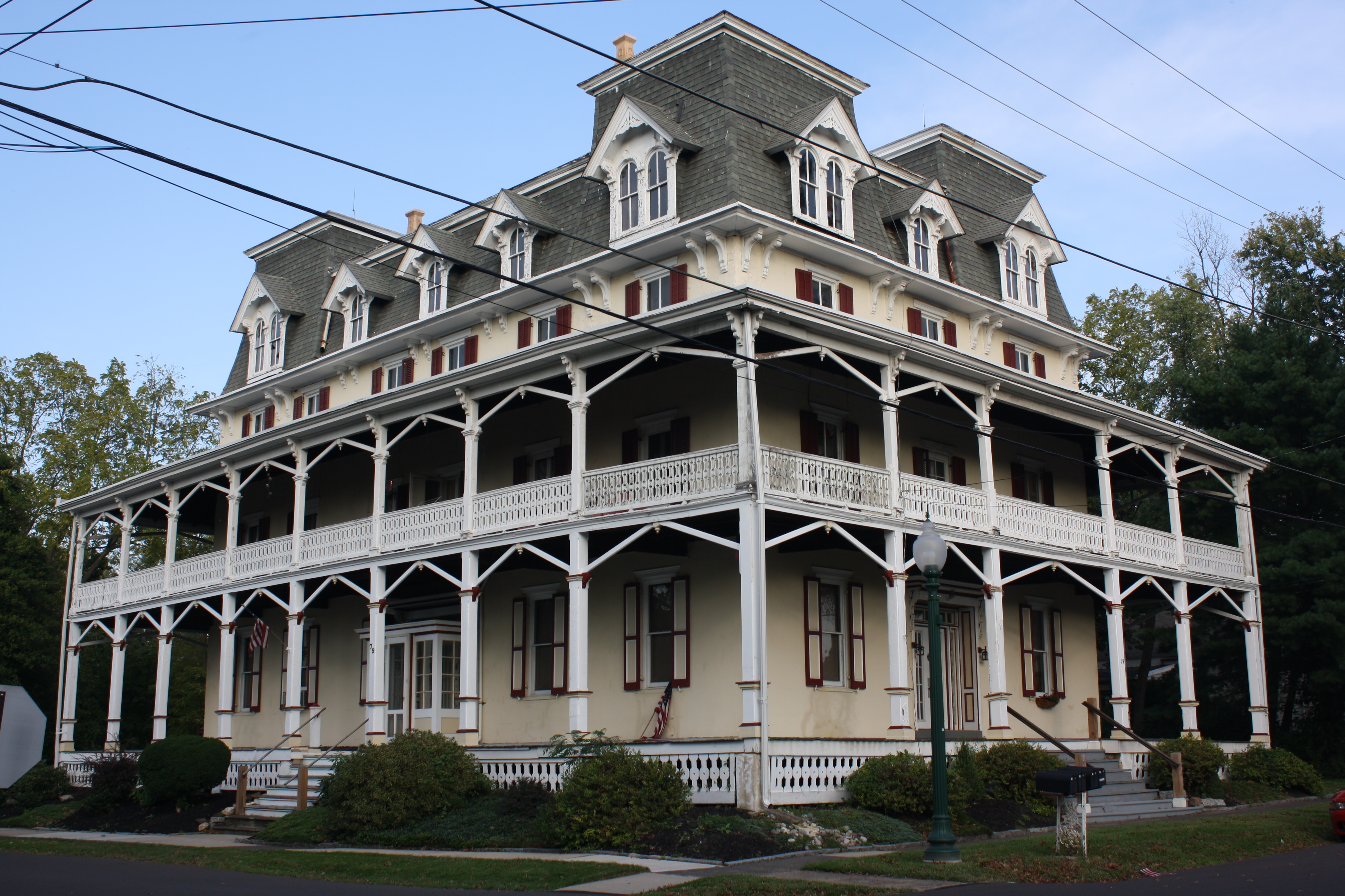 Ivyland Historic District Hotel in Ivyland Historic District (79 Gough Ave.).